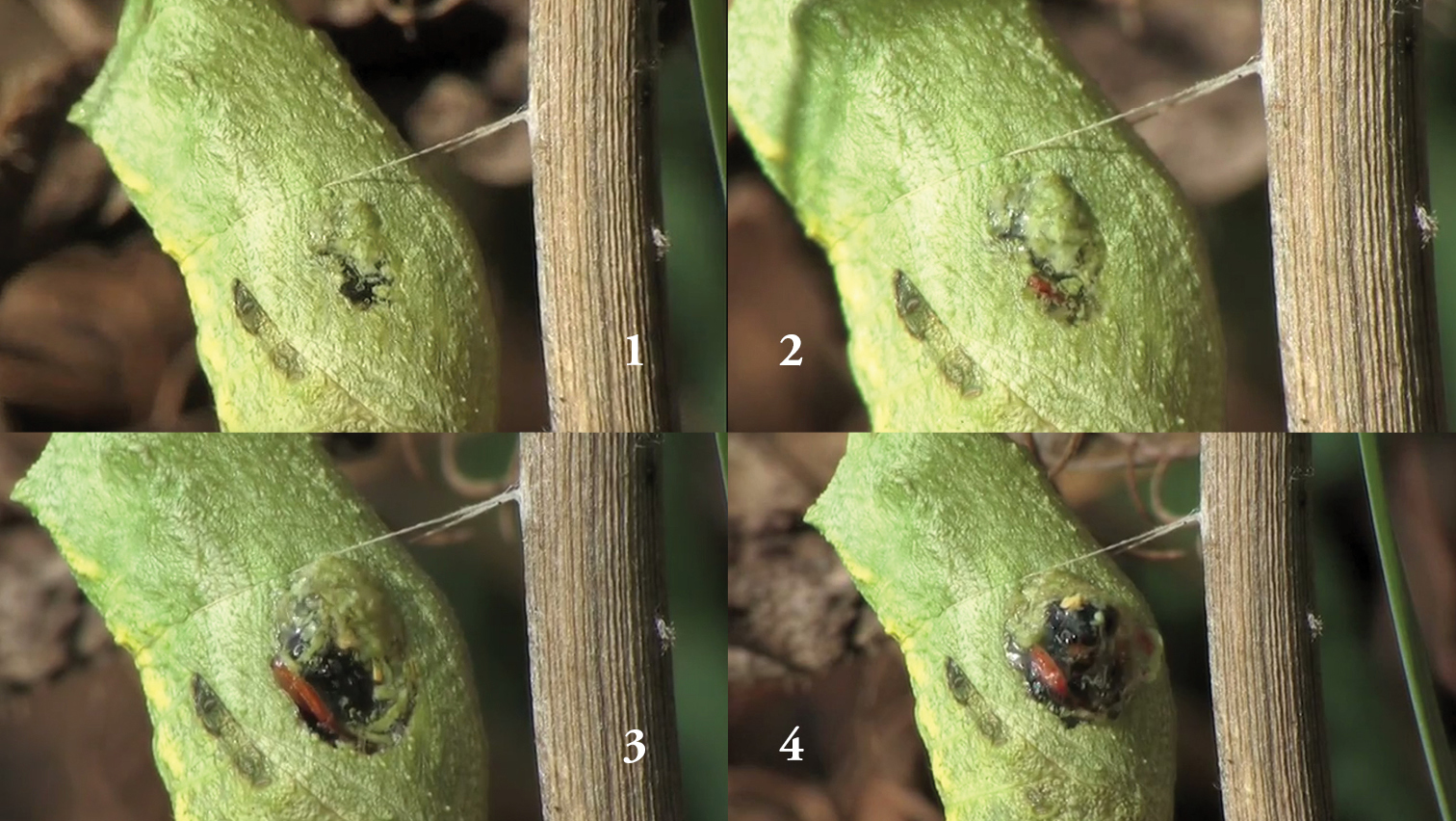 "1–4 Sequence in the emergence process of Trogus lapidator (Fabricius) from Papilio machaon Linnaeus (Papilionidae)."